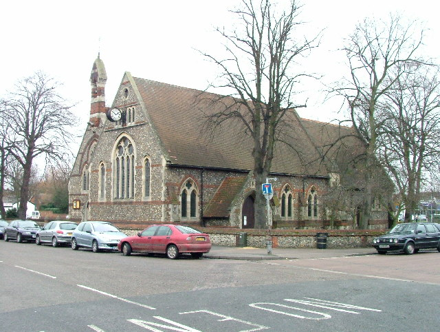 Holy Trinity parish church, High Street, Stevenage, Hertfordshire, seen from the southwest